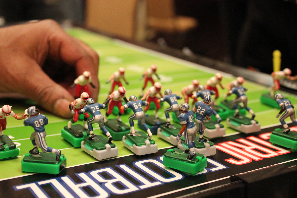 In Electric Football your fantasy games can be played. The Detroit Lions offense works deep from their end zone against the Nebraska Cornhuskers at the Electric Football World Championships.